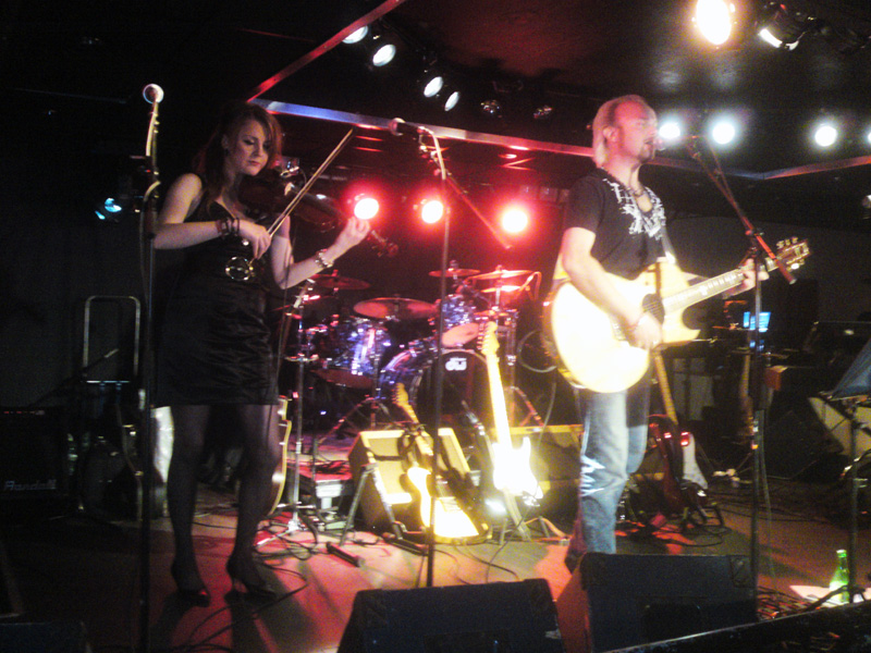 Svante Karlsson i Jönköping 2010